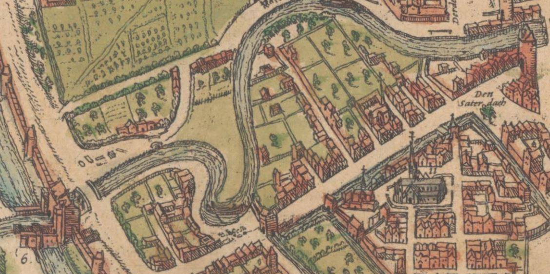 The three Laeken city gates in Brussels, cropped from the 1572 map by Frans Hogenberg en Joris Bruin (Civitates Orbis Terrarum I 14)